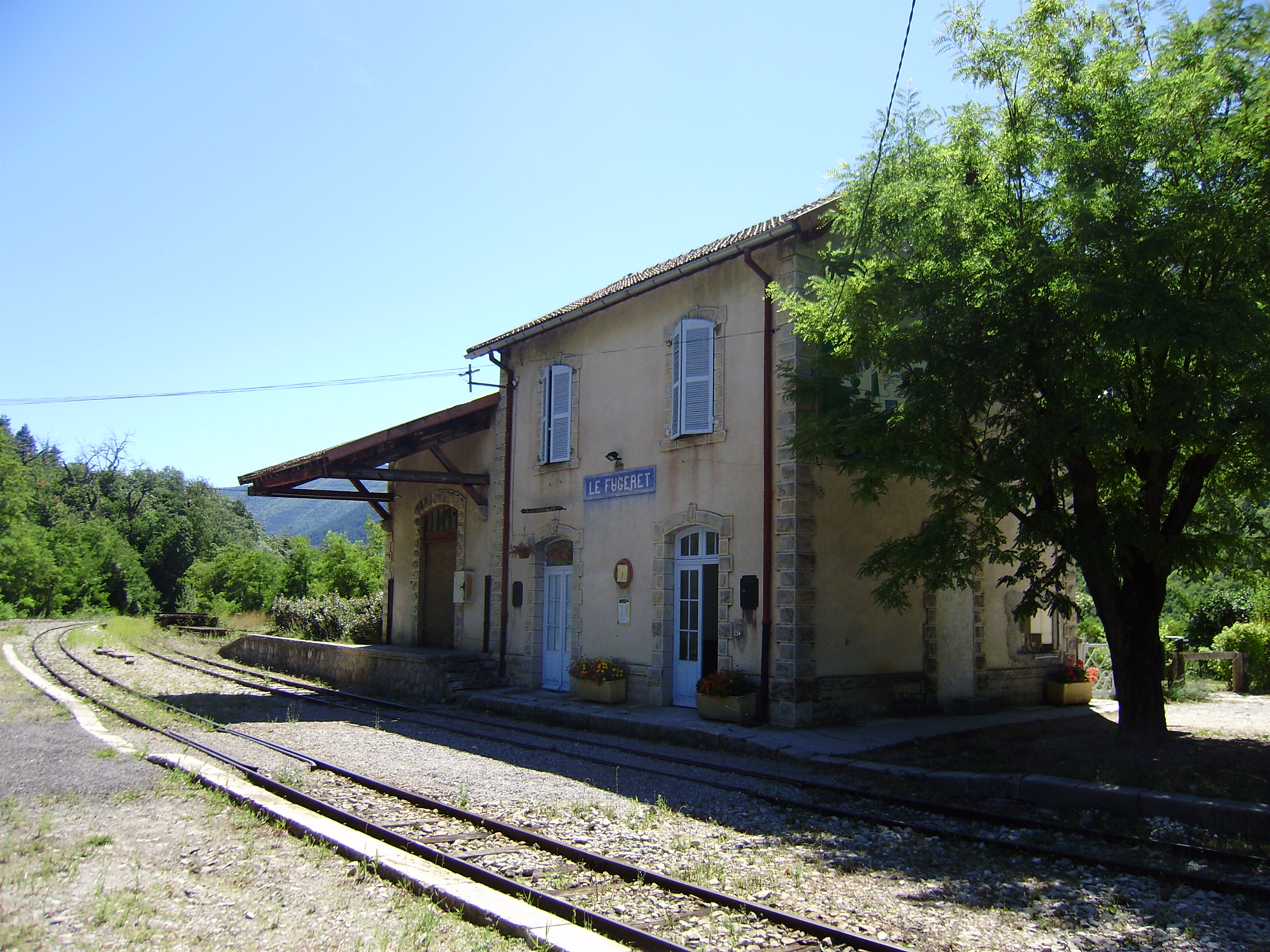 The station of Le Fugeret